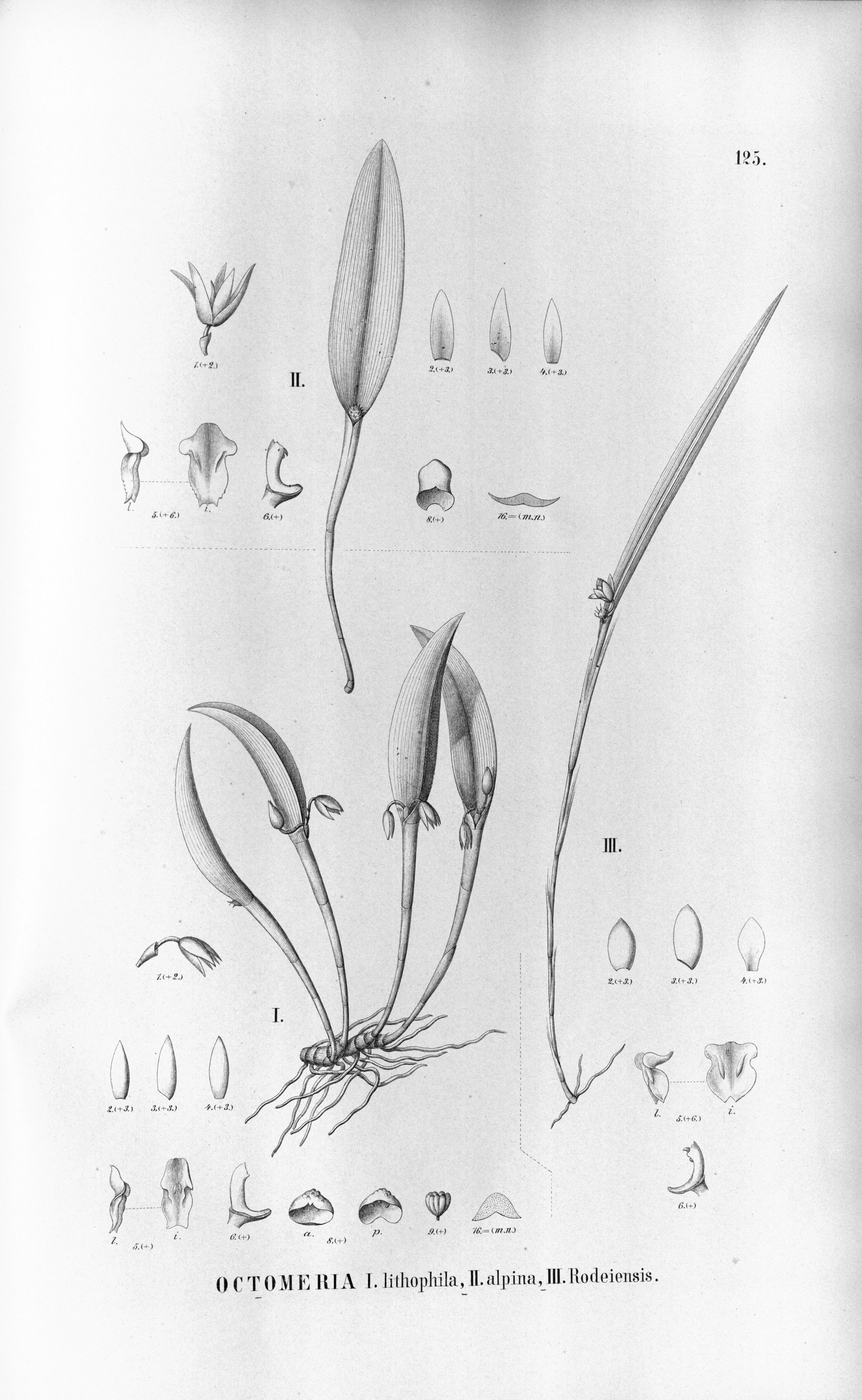 Illustration of I. Octomeria lithophila II. Octomeria alpina III. Octomeria rodeiensis